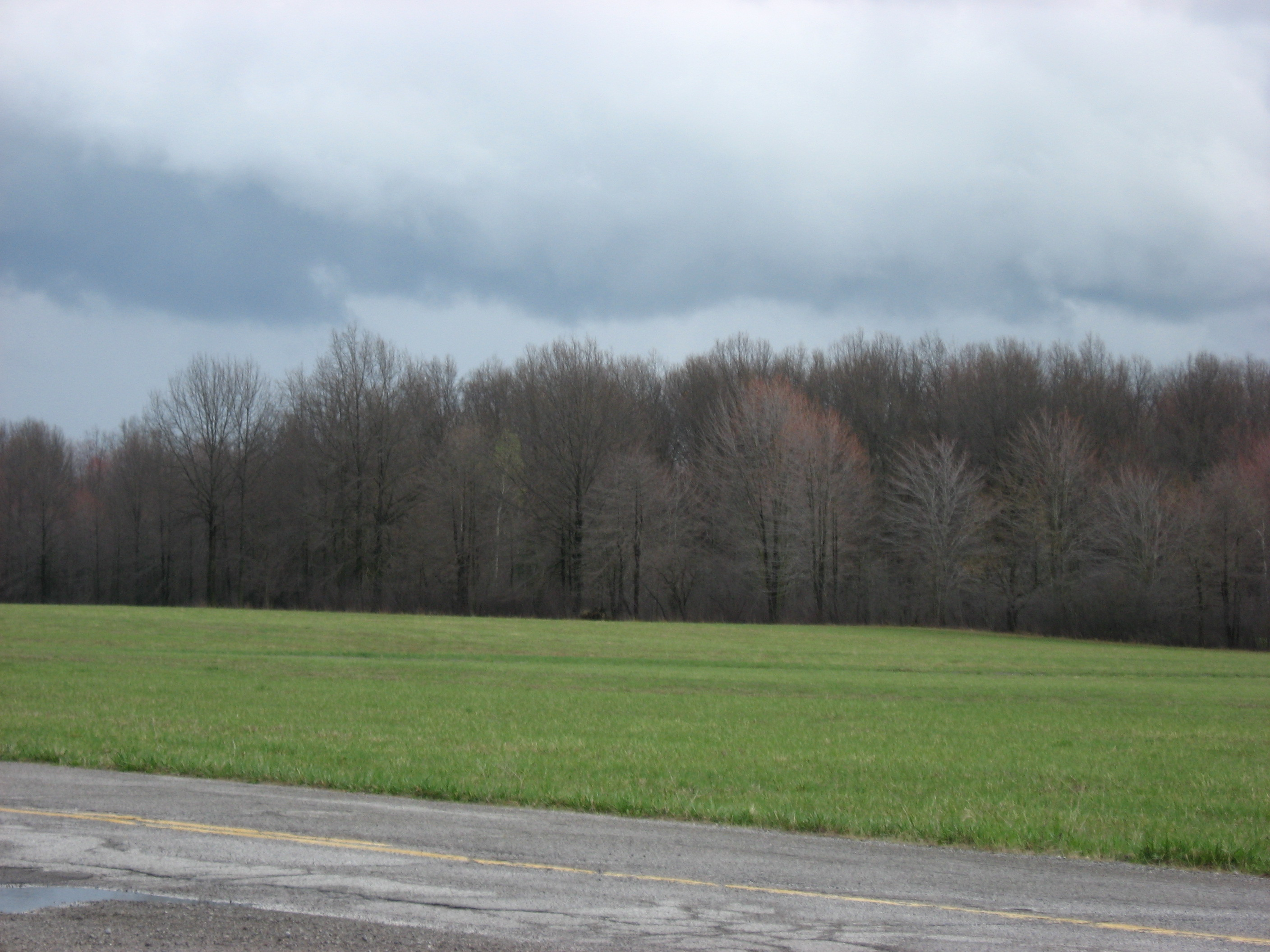 Overview of the William H. McGuffey Boyhood Home Site, located on the southern side of McGuffey Road east of State Route 616 in northwestern Coitsville Township, Mahoning County, Ohio, United States. Now part of a nature preserve, the site has been declared a National Historic Landmark.